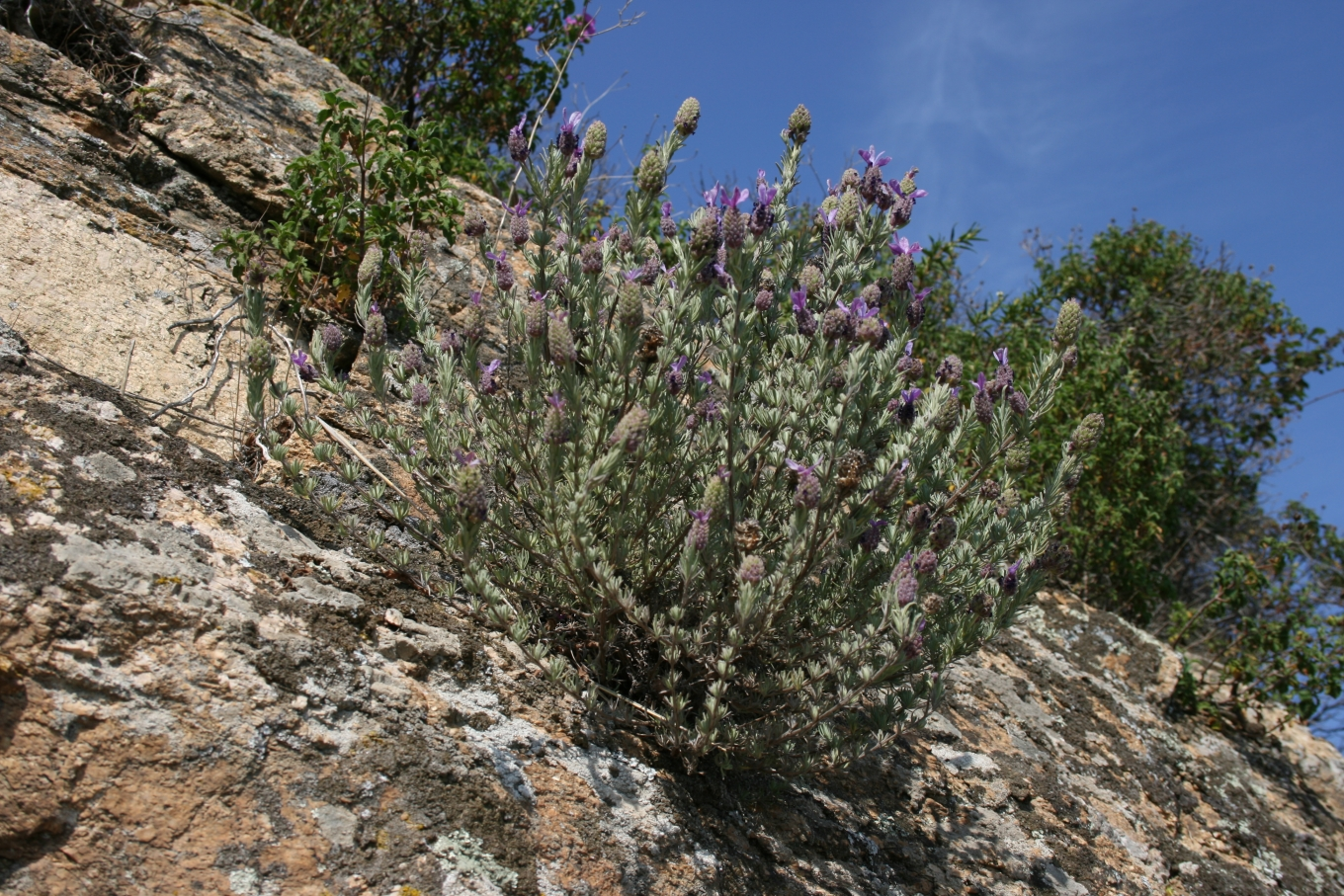 Lavandula stoechas: Habitat.